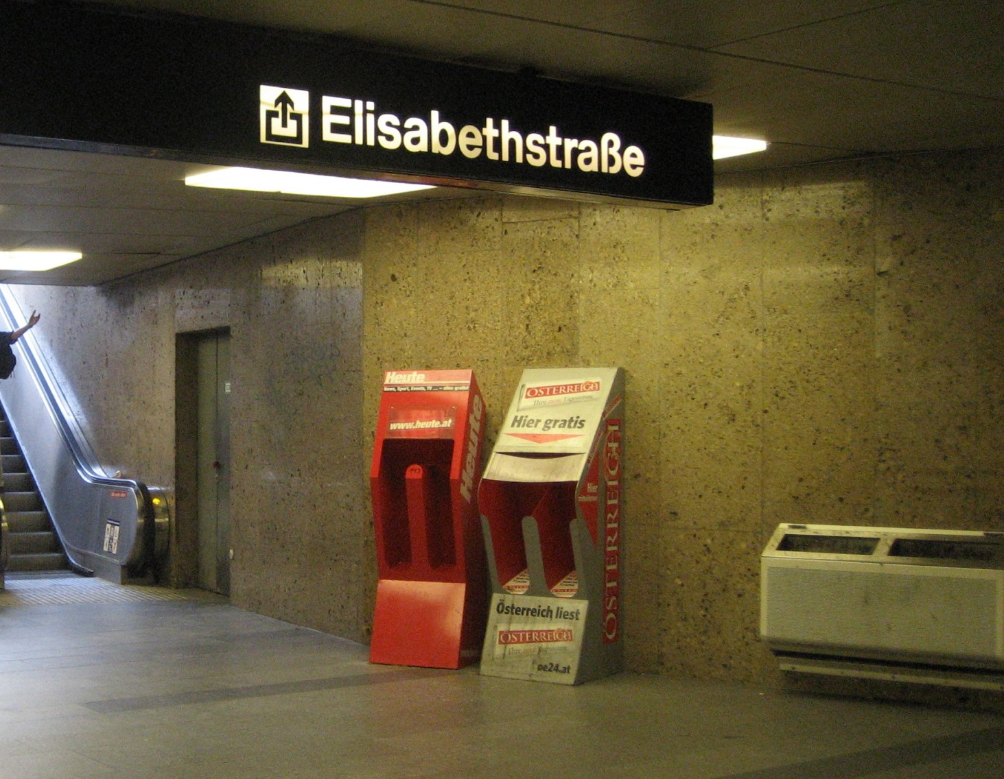 Free newspaper booths for "Heute" and "Österreich" in Vienna, underground station U-Bahnhof Karlsplatz, exit to Elisabethstrasse